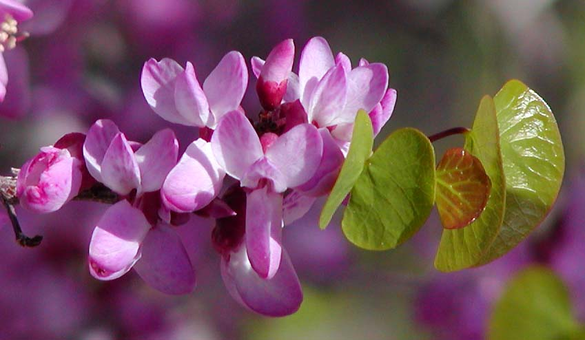 Photo of flowers of Cercis occidentalis (Western redbud) in Red Rock Canyon, Nevada